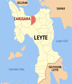 Map of Leyte showing the location of Carigara